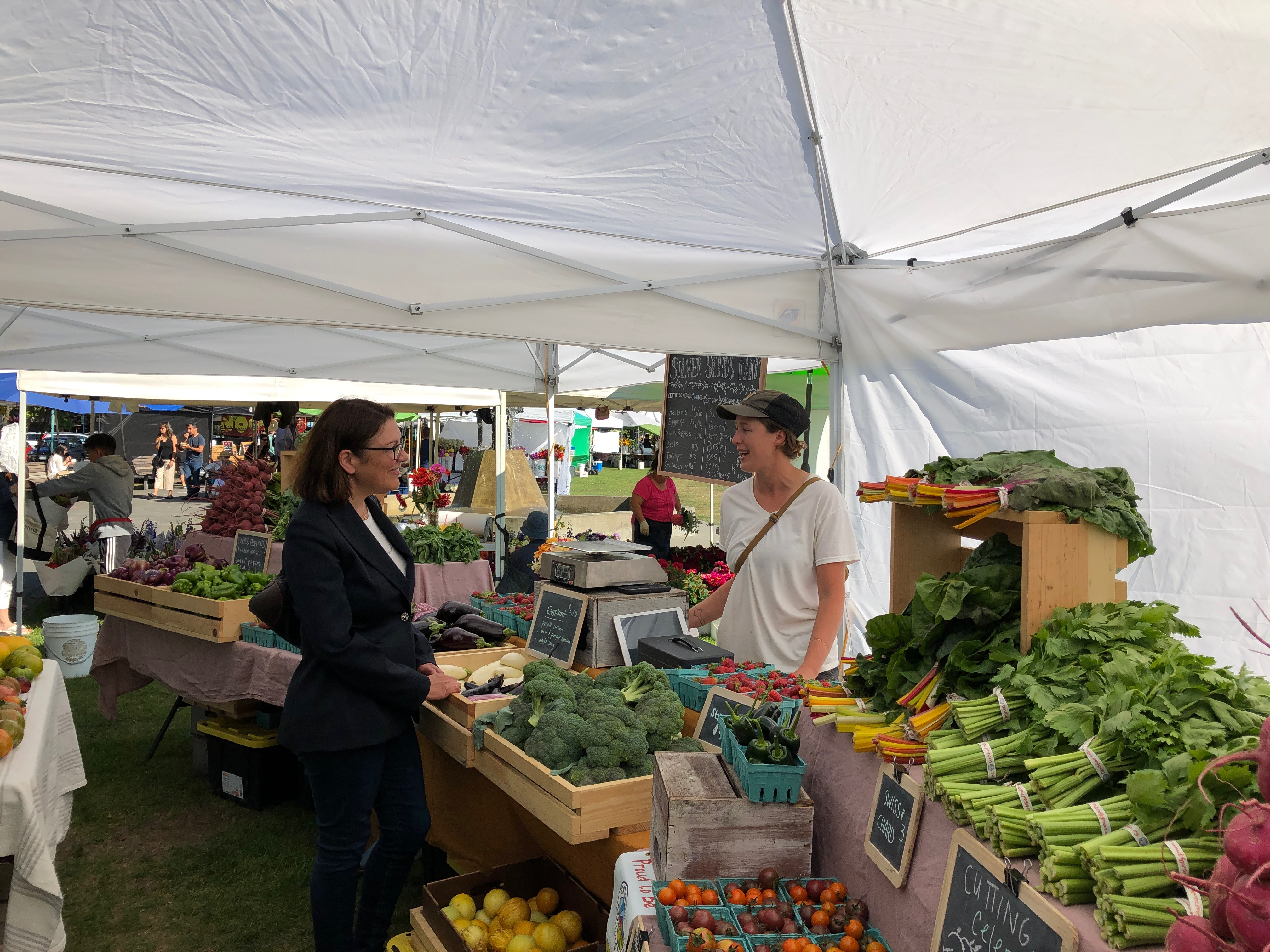 Congresswoman Suzan DelBene speaks with a local farmer at the Wednesday Farmer's Market in Washington's First Congressional District.